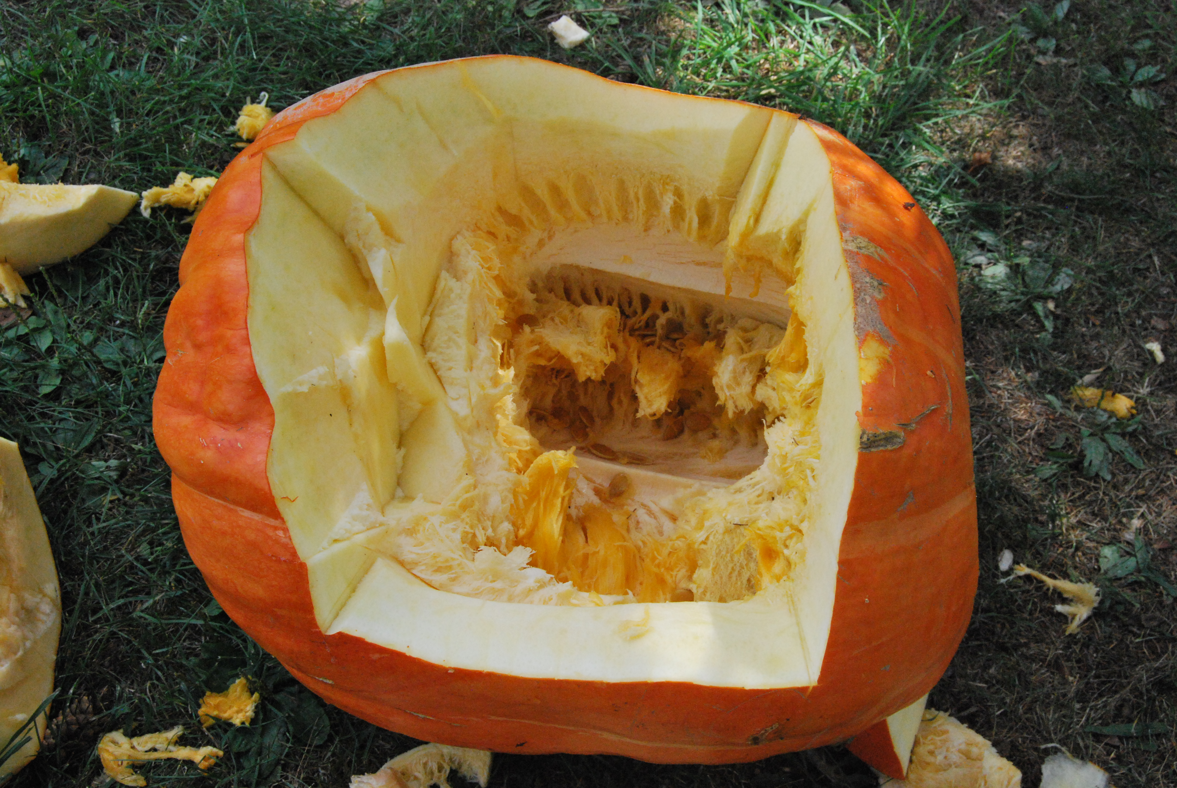 The seed cavity of a Cucurbita maxima fruit (variety "Atlantic Giant" estimated to have weighed 122 pounds.